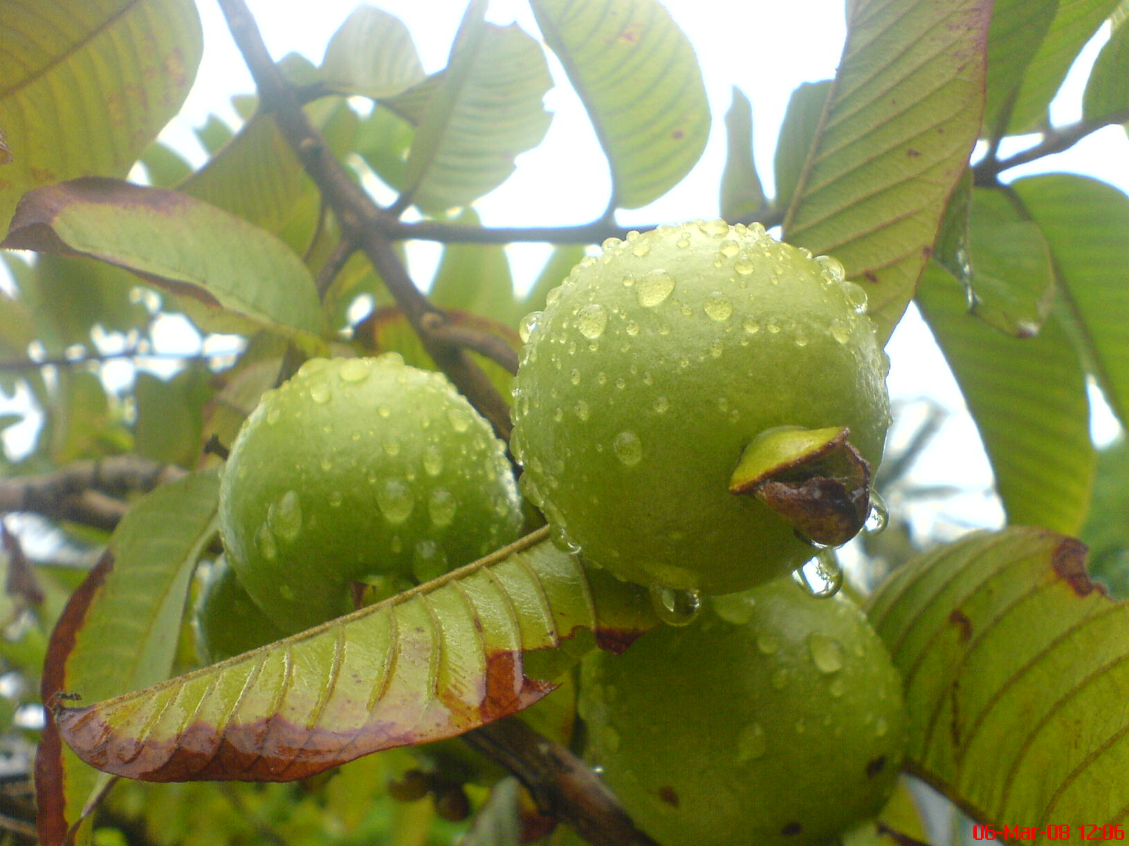 A shot of apple guava